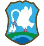 Coat of arms of Dámóc, Hungary